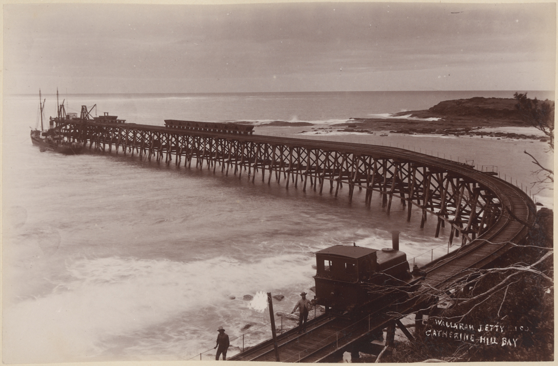 Title: Wallarah Jetty, Catherine Hill Bay Dated: decade of 01/01/1894 Digital ID: 10036_a027000039 Rights: We'd love to hear from you if you use our photos/documents. Many other photos in our collection are available to view and browse on our website using Photo Investigator.